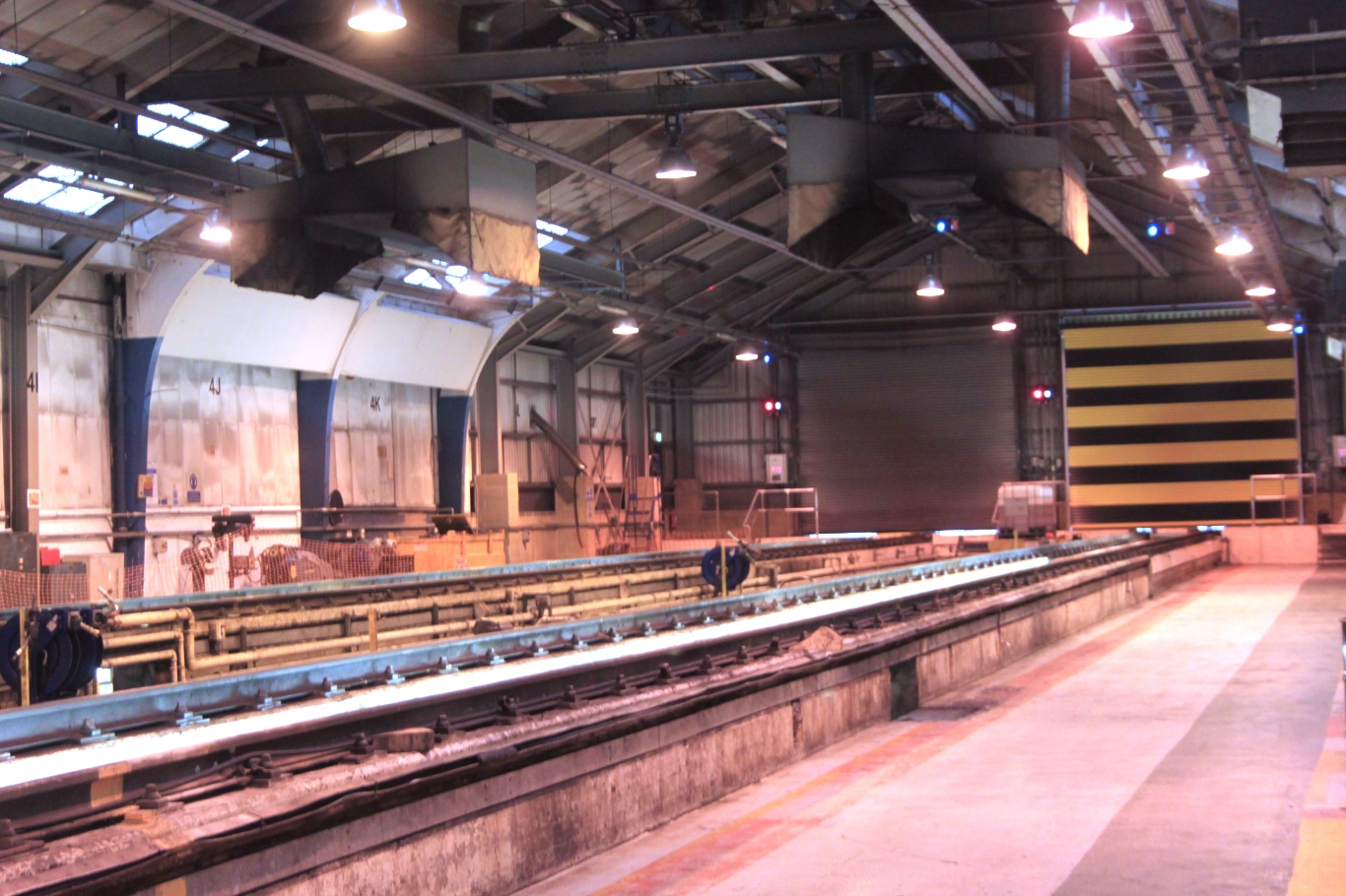 Inside the northern half of the DMU shed of St Philip's Marsh depot in Bristol. This was opened in 1959 at Marsh Junction ready for the first diesels to be allocated to the city but is seen here in 2016.